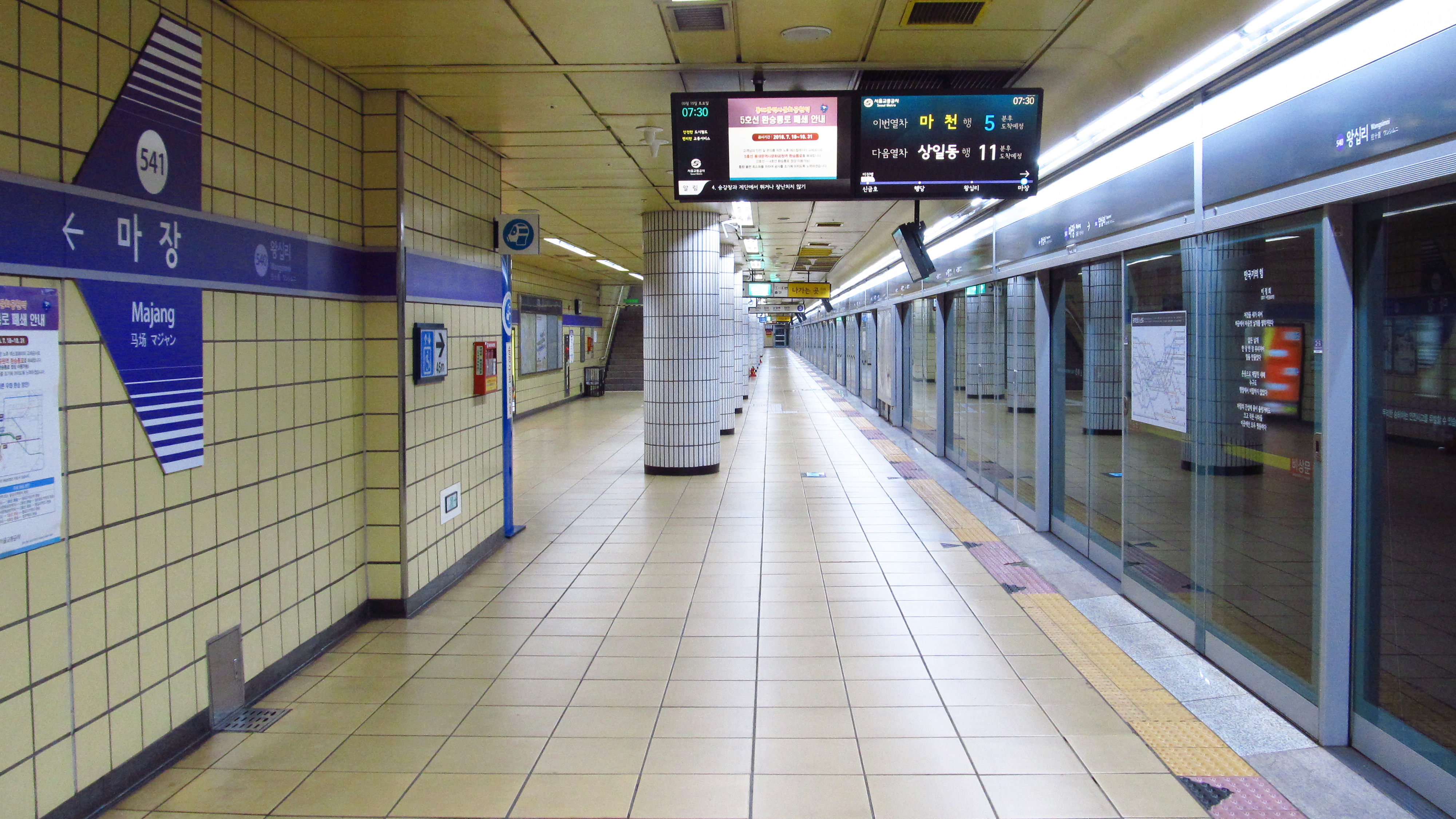 The platform at Majang Station on Seoul Subway Line 5 in Seongdong-gu, Seoul, Republic of Korea(South Korea)